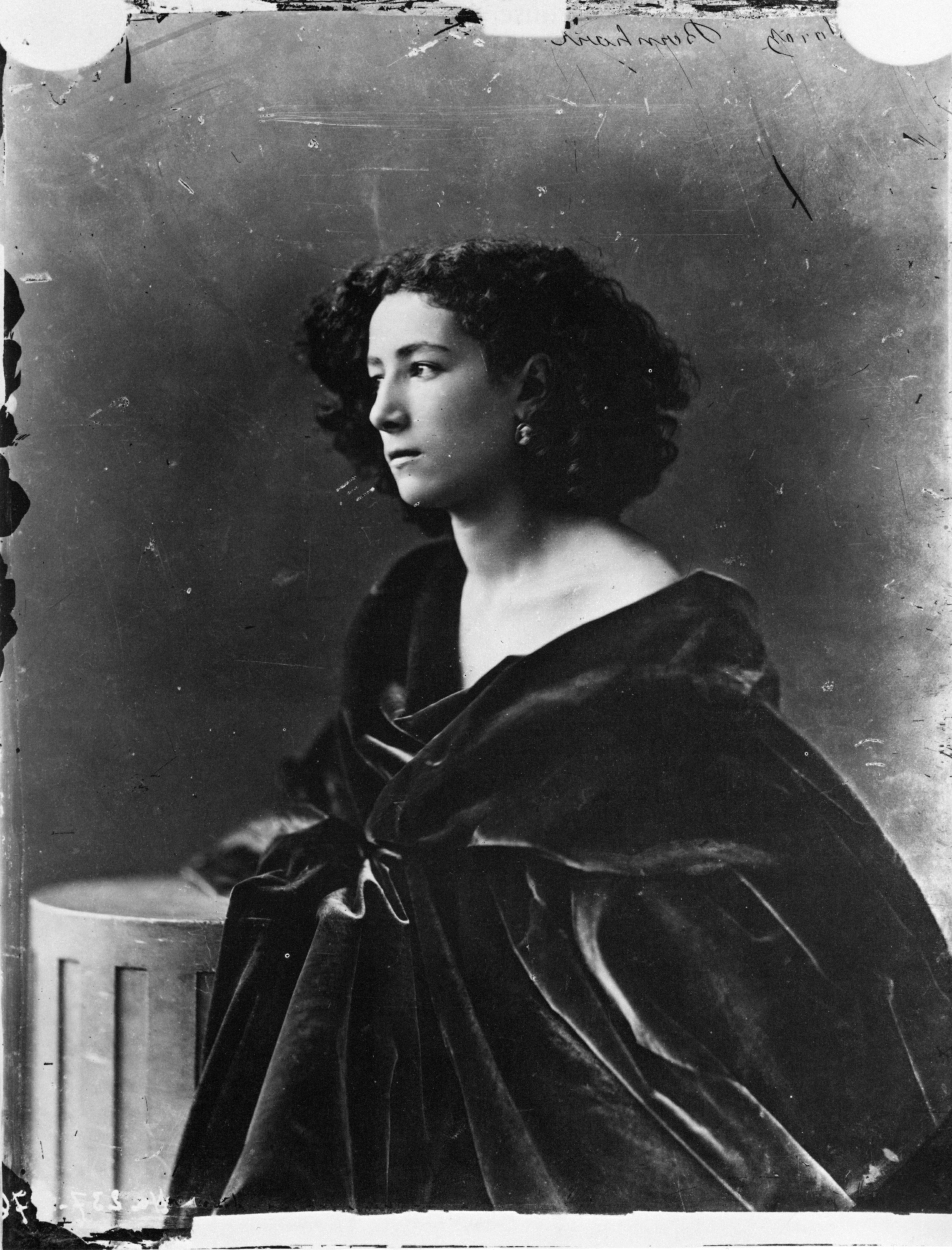 Félix Nadar (1820-1910); French actress Sarah Bernhardt (1844-1923) around 1864.